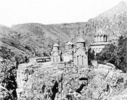 View of the 7th-13th century Armenian monastic ensemble of Khtzkonk now in Turkey. As a policy of cultural genocide on Armenians, the Republic of Turkey ordered its army to destroy the monastery in 1966. All but one church remains standing.